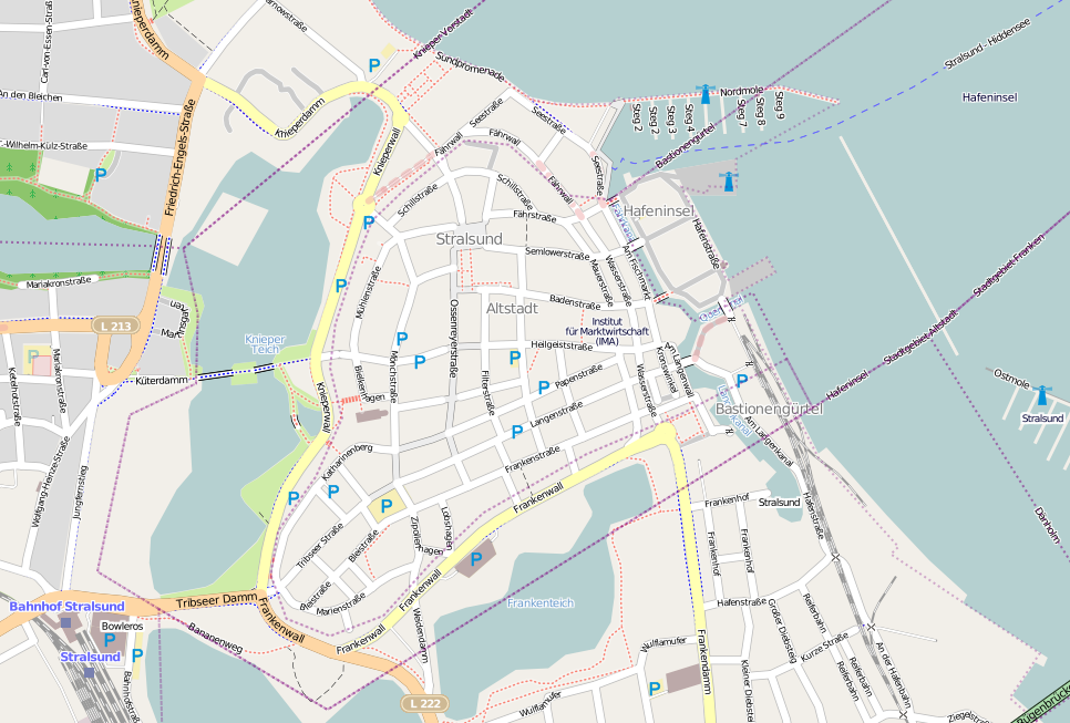 Map of Stralsund in Germany. The city center / old town of Stralsund, Mecklenburg-Vorpommern, Germany. Map of: Stralsund.